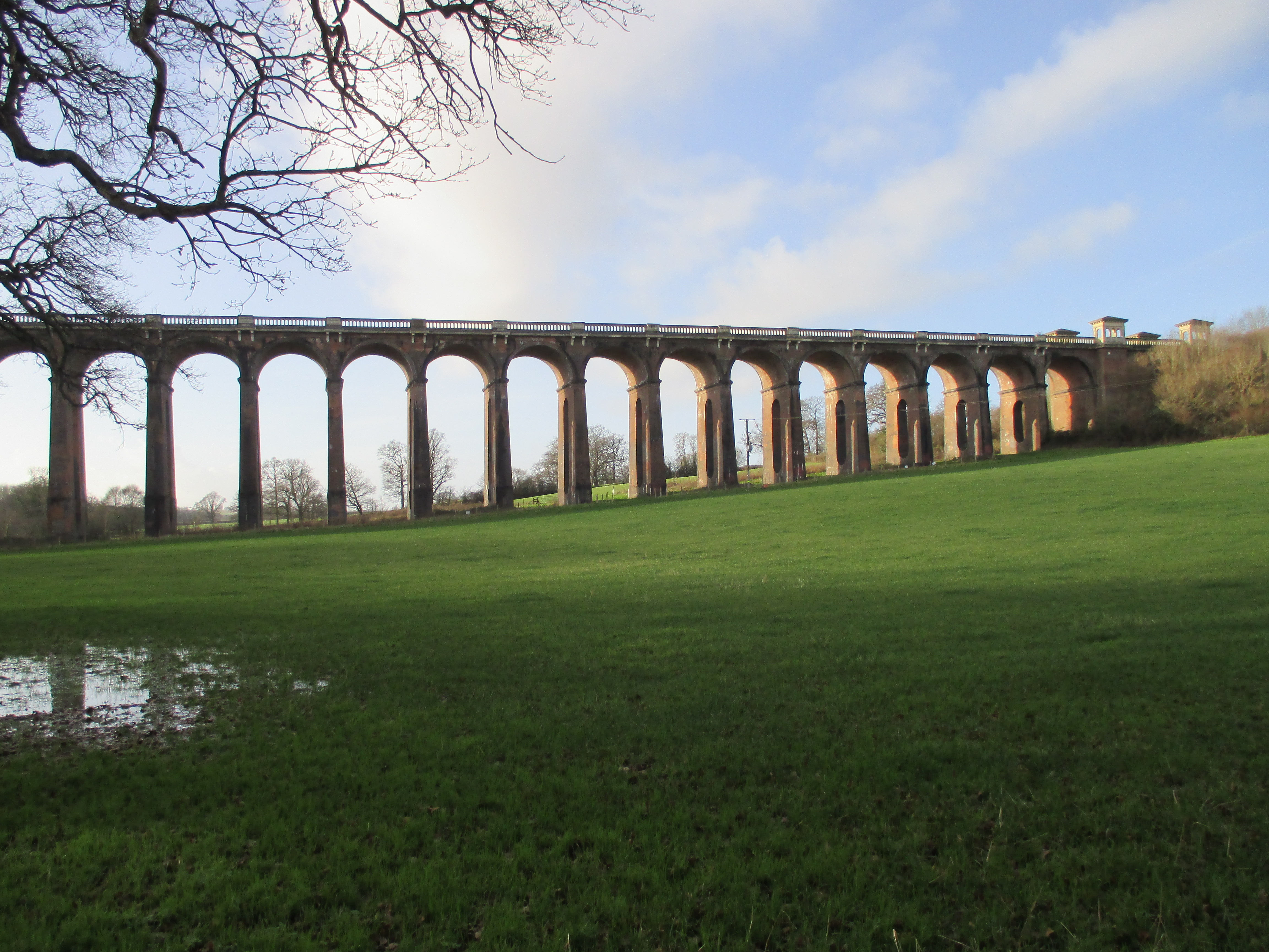 The northern end of Ouse Valley Viaduct, 2 miles south of Balcombe, West Sussex, photographed from the east.